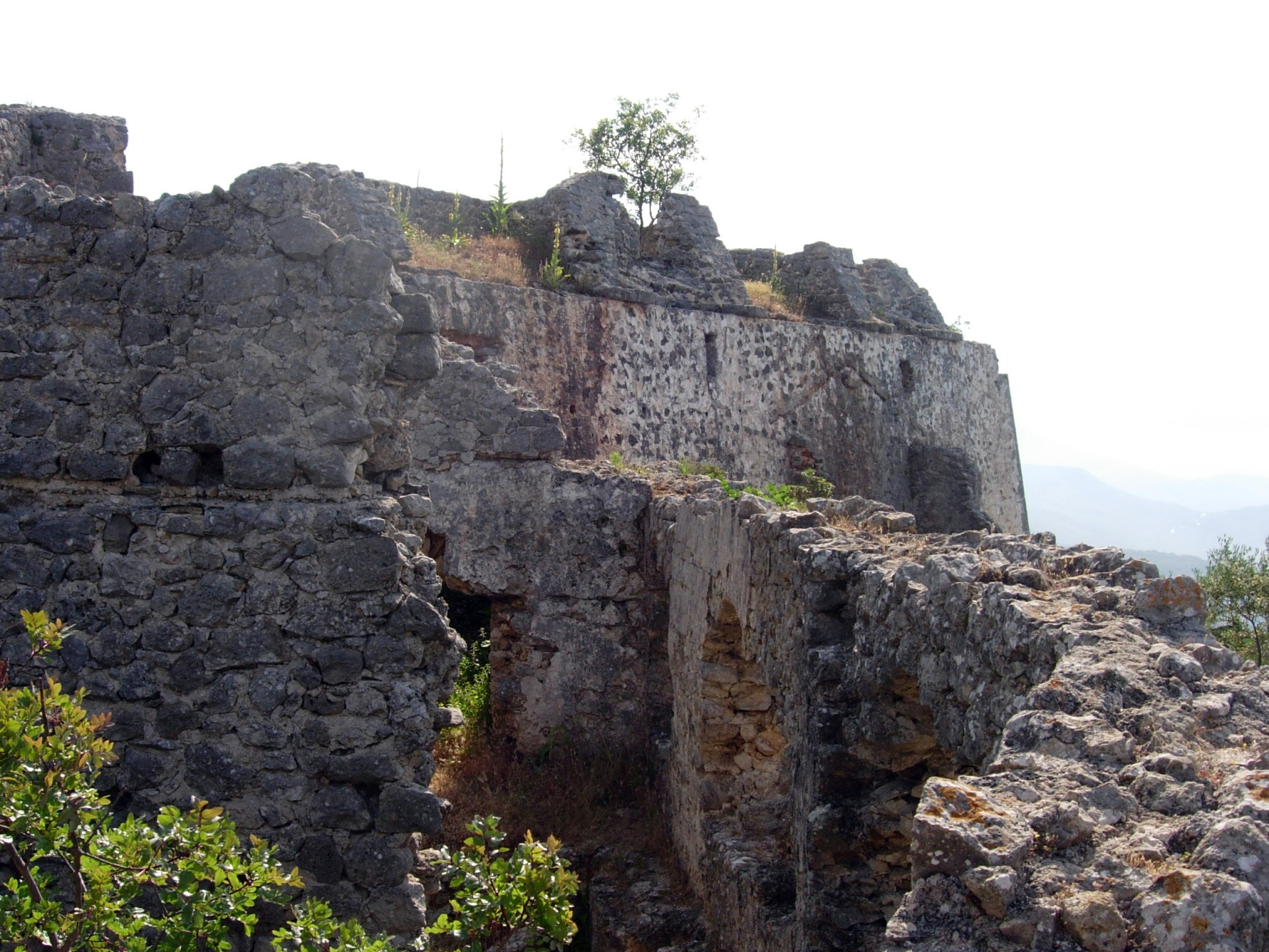 The Castle of Ali Pasha. The castle is near the village of Trikorfu